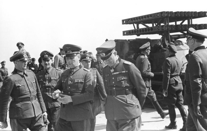 Information added by Wikimedia users.EN Translation: Northern France, Atlantic Coast, Riva Bella: Weapons demonstration of 8 cm multiple launcher (Panzerwerfer on Halftrack "Mule" [Sd.Kfz.4/1]) [Note: Riva Bella was located on Sword Beach. This photo was taken one week before D-Day. "PK 698" was the Propagandakompanie unit assigned to take photographs for the German newspapers.]